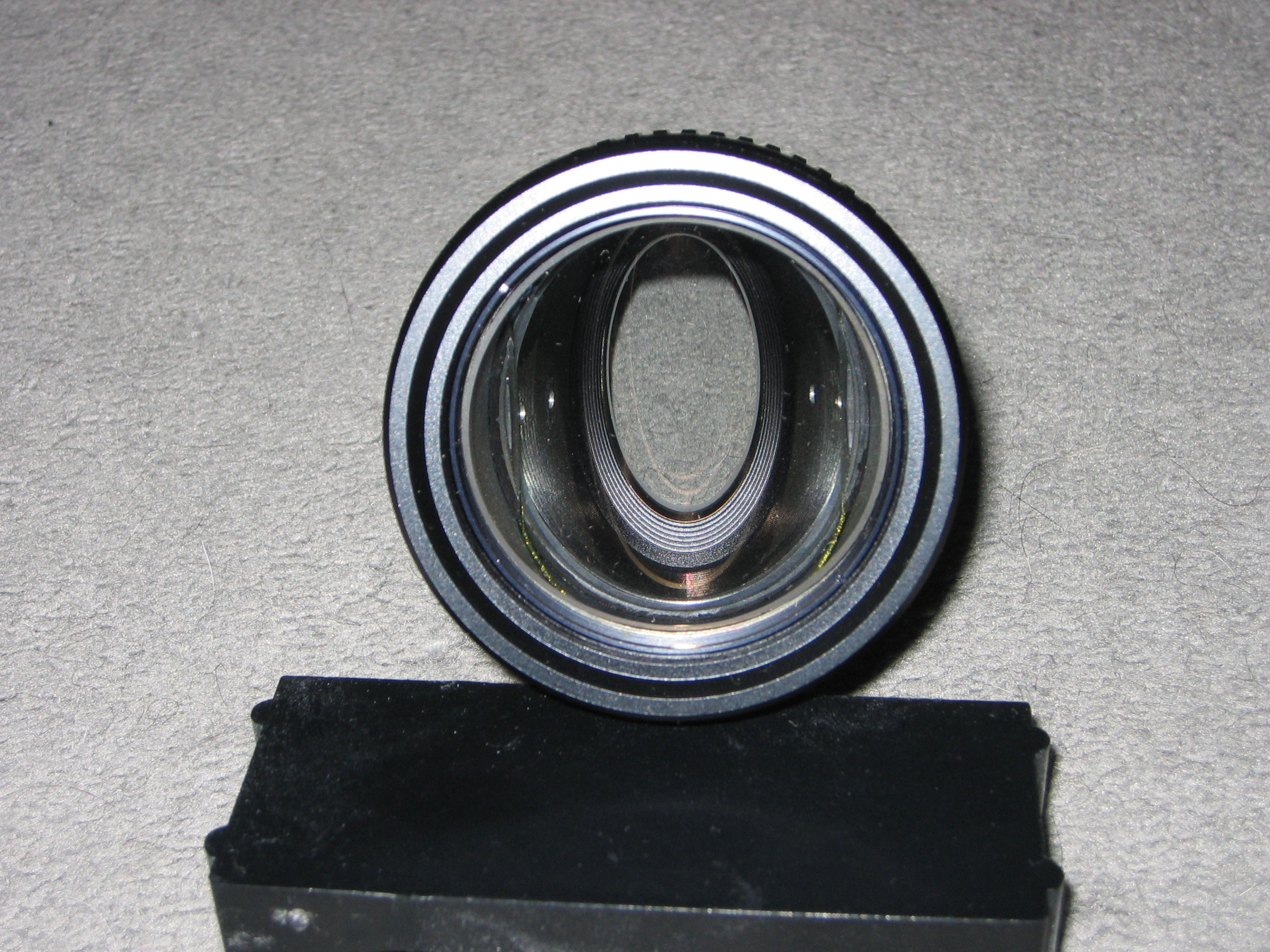 The oval image of the rear element seen from the front of a Cinemascope lens.